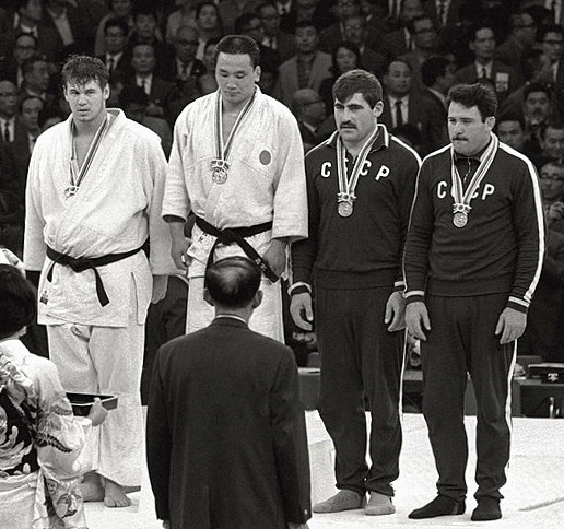 Left-right: Doug Rogers, Isao Inokuma, Parnaoz Chikviladze, Anzor Kiknadze at the Tokyo Olympics. Tokyo, October 1964